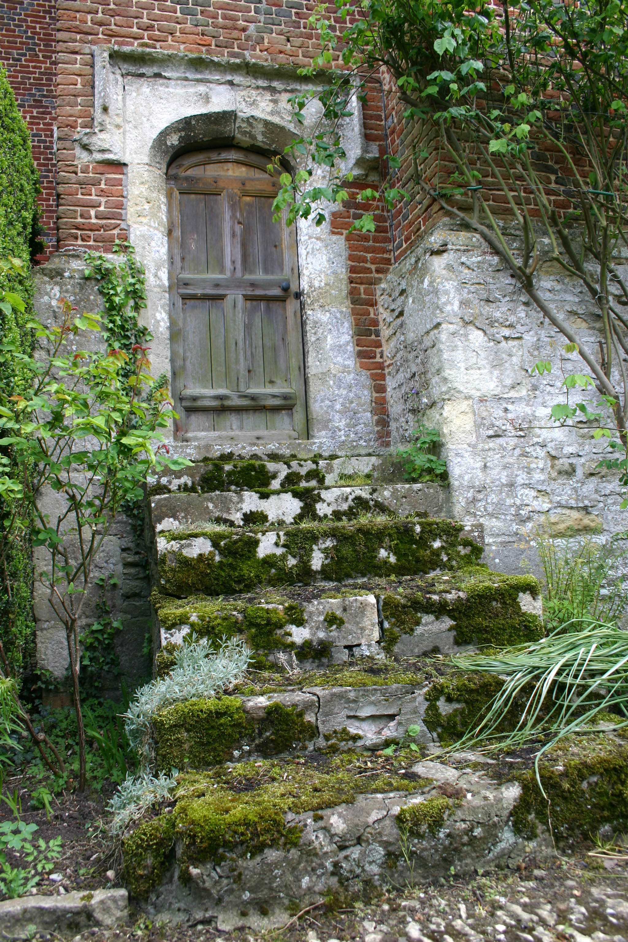 Steps up to door on northwest of Beckley Park manor, Beckley, Oxfordshire, UK